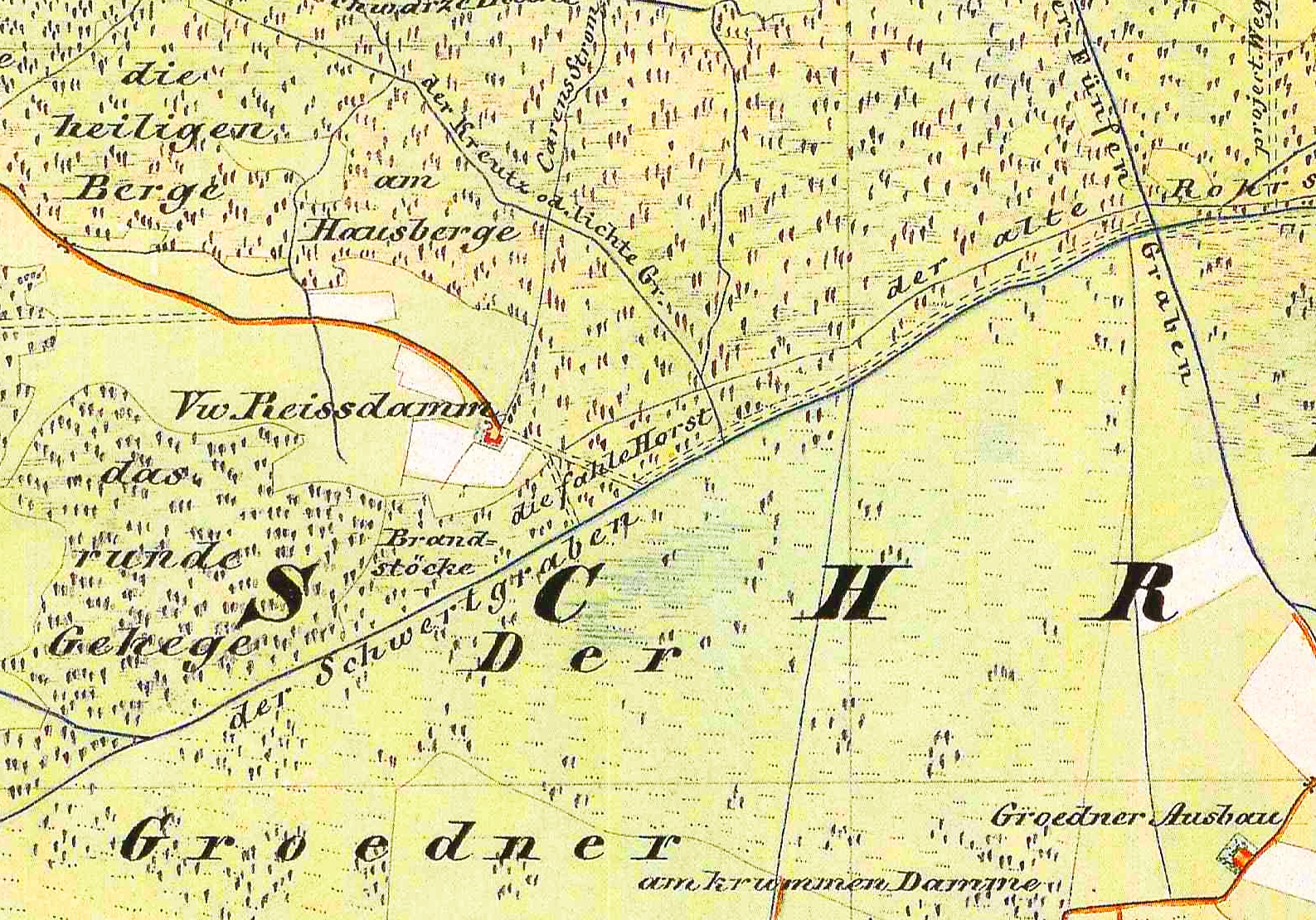 Elsterwerda, Lkr. Elbe-Elster, Brandenburg, Germany, detail from the Urmesstischblatt Sheet 4547 Elsterwerda, drawn in 1841